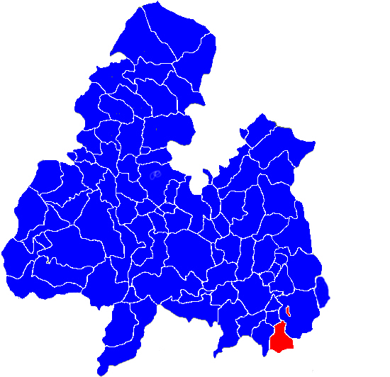 Shows the location of Ballymurreen civil parish, including the fact that it has an exclave. Based on this map